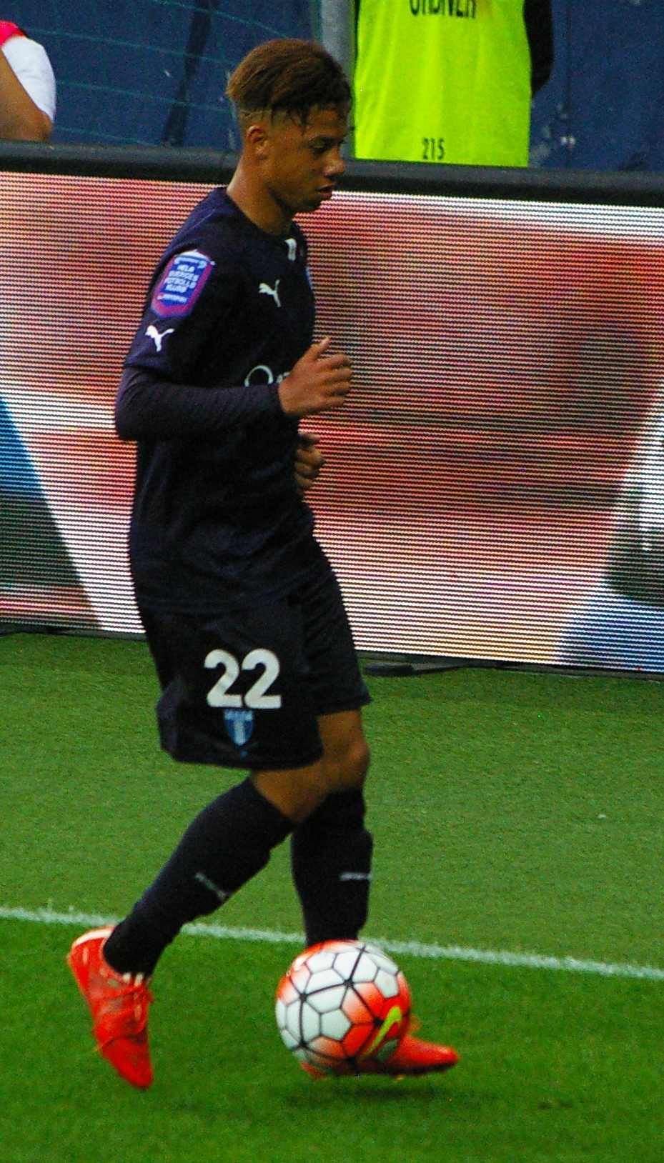 CL qualifing match 3rd round 1st leg